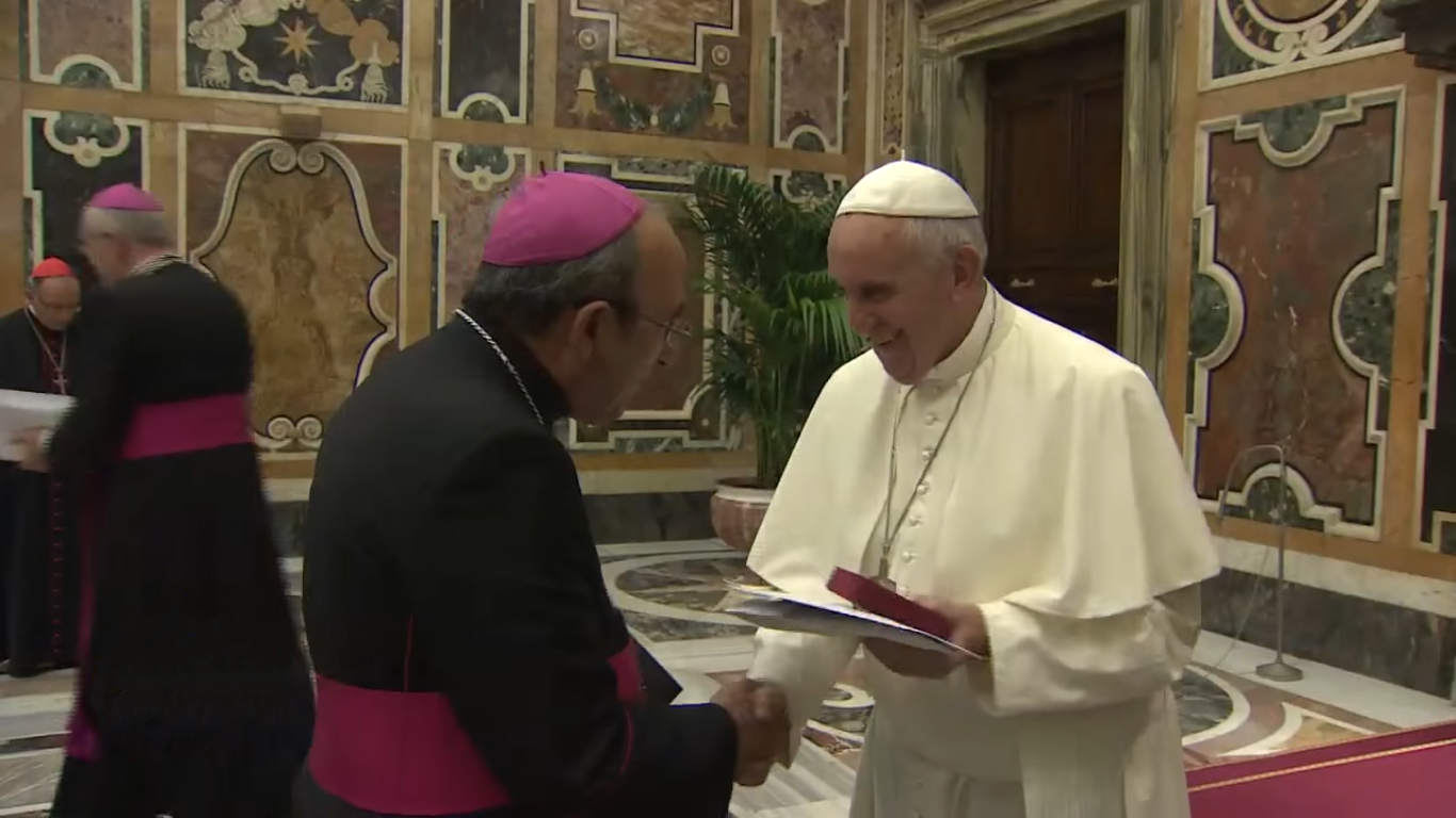 António Marto, Bishop of Leiria-Fátima, and Pope Francis, in the Vatican, 2015.